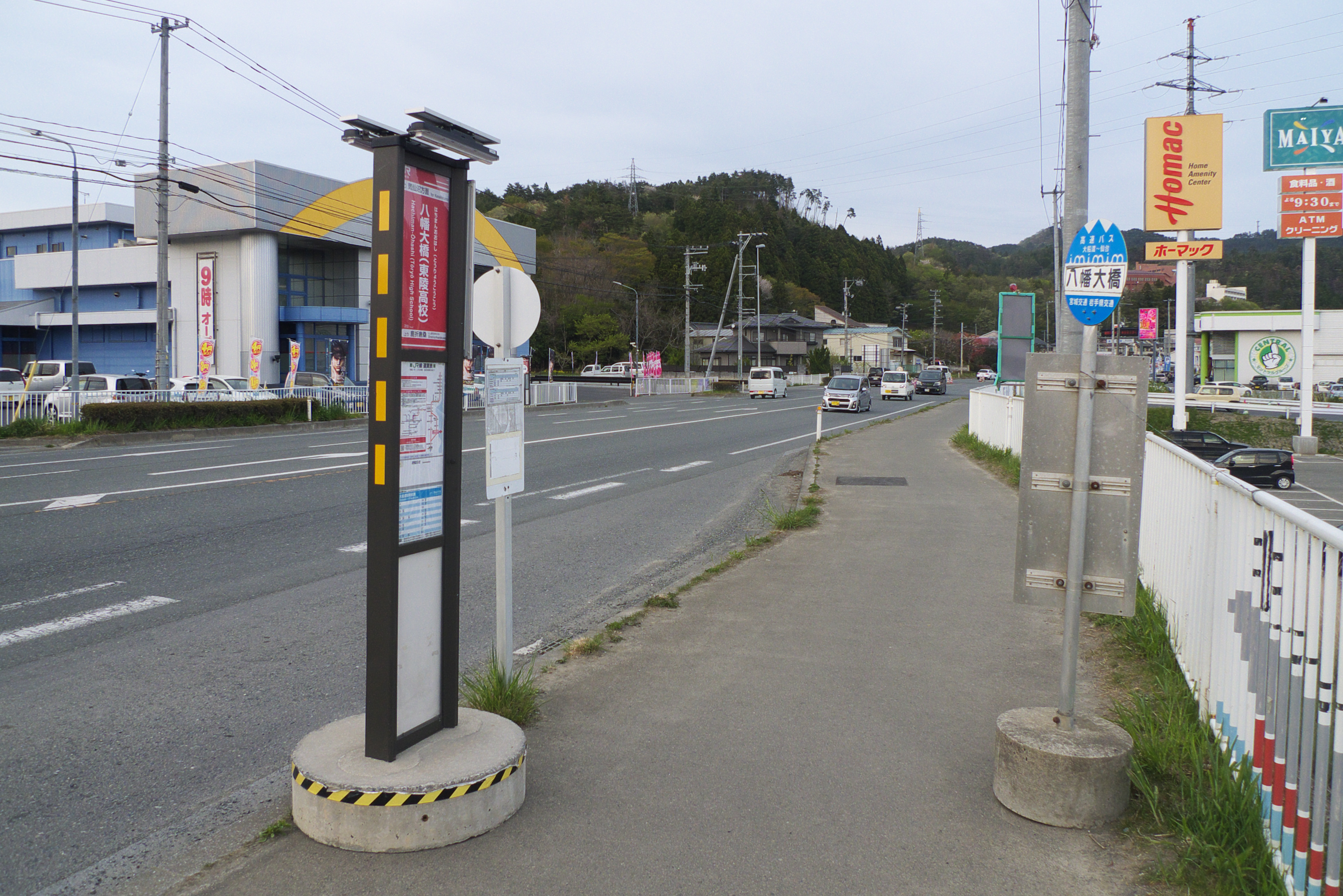 JR East Ofunato Line BRT Hachiman-Ohashi (Toryo High School) Station and Hachiman-Ohashi bus stop in Kesennuma City, Miyagi Prefecture, Japan